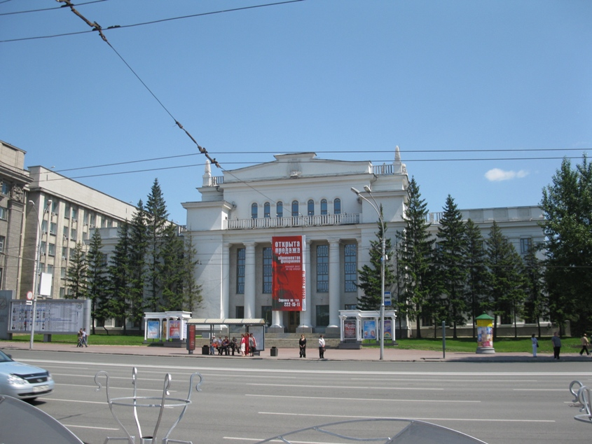 Lenin House in Novosibirsk, Russia. The building is located in Krasny Avenue, 32. It was built in 1924—1926 by architects I. A. Burlakov, I. I. Zagrivko and M. S. Kuptsov. In 1944 the building was rebuilt by architect V. M. Teitel. Now here is a Novosibirsk State Philharmonic.